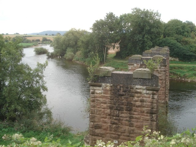 Backney Bridge Looking eastwards and upstream from where the old railway bridge crosses the Wye. The railway closed in 1964.